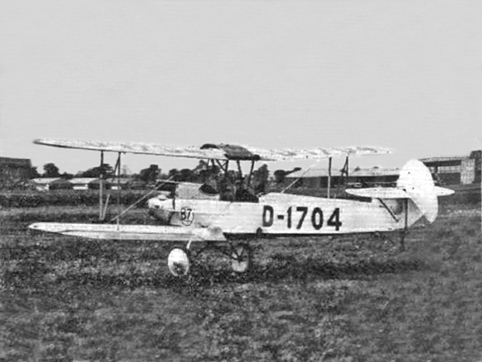 Albatros L 82b, Orly, August 1929